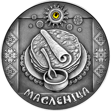 "Maslenitsa (Pancake week)". Silver commemorative coins, denomination: 20 rubles